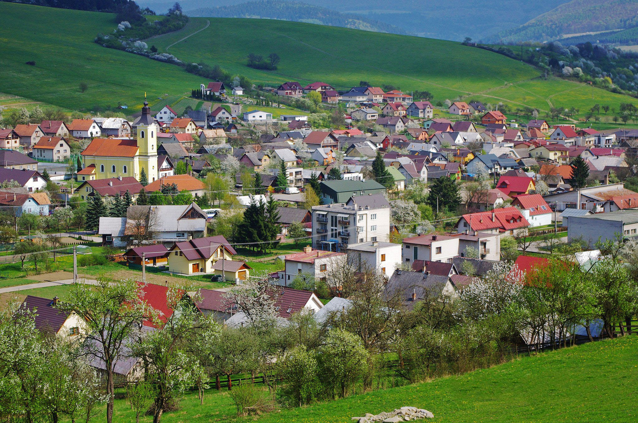 Village Jasenica